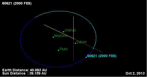 This diagram illustrates the orbit of the Scattered-Disk Object (60621) 2000 FE8